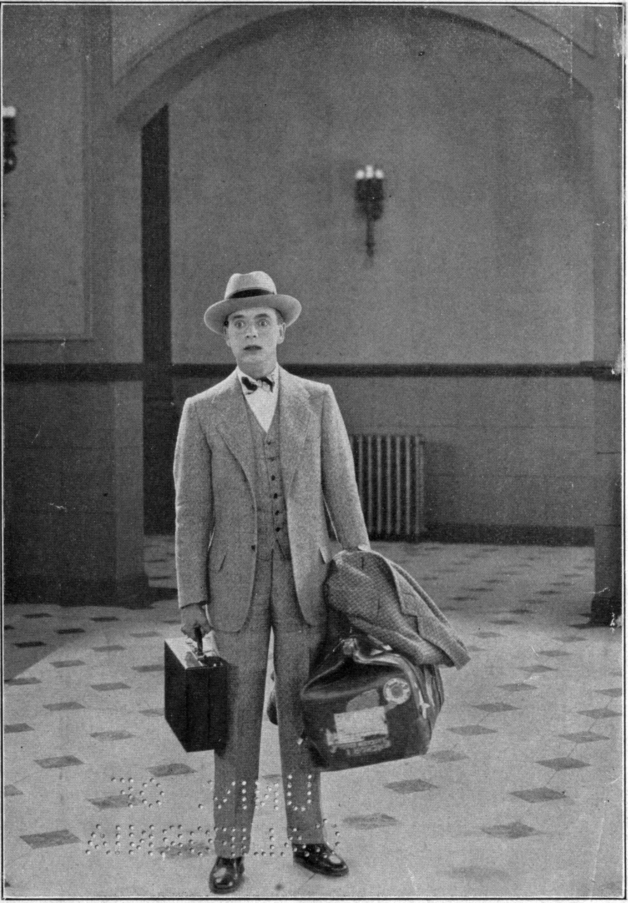 WILLIAM HALOWELL MAGEE (DOUGLAS MacLEAN) ARRIVES AT MYSTERIOUS BALDPATE.